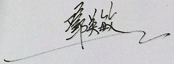 This is English Tang's signature.